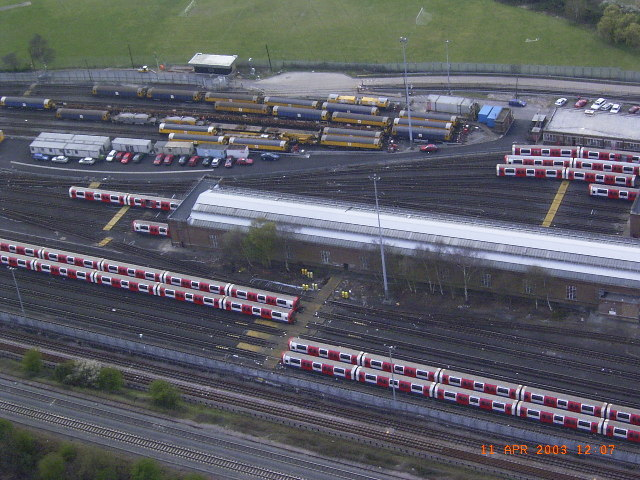 The London end of West Ruislip Central Line depot. Taken looking southwards from a police helicopter